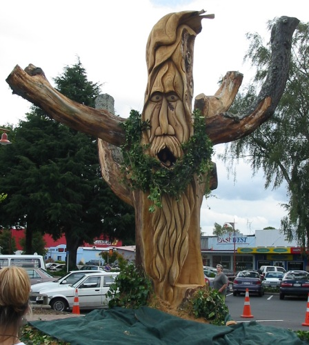 Tokoroa Talking Poles: Tree Carving: Since 1998, Tokoroa has been "sprouting" Talking Poles, consisting mainly of carvings and sculptures representing the many cultures in the town. This one, photographed shortly after its unveiling in 2004, is a chainsaw carving of an old tree which had suffered extensive damage in a storm and died. The carving is by Andy Handcock and is representative of the Greenman. It is located on State Highway 1, immediately adjacent to the town's information centre.